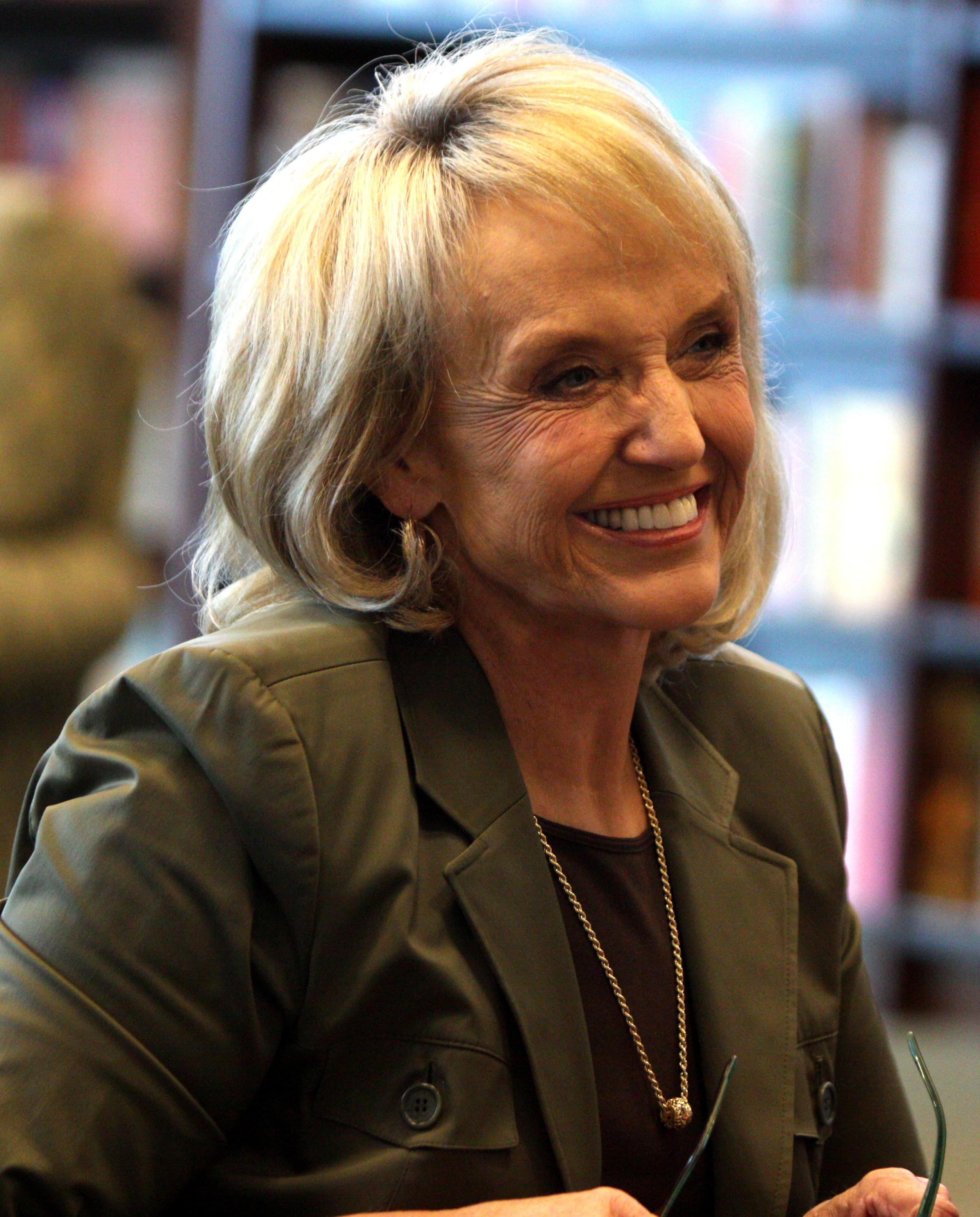 Governor Jan Brewer at a book signing in Phoenix, Arizona on November 5, 2011.